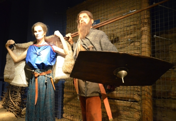 Rekonstruktionsversuch wandalicher Trachten